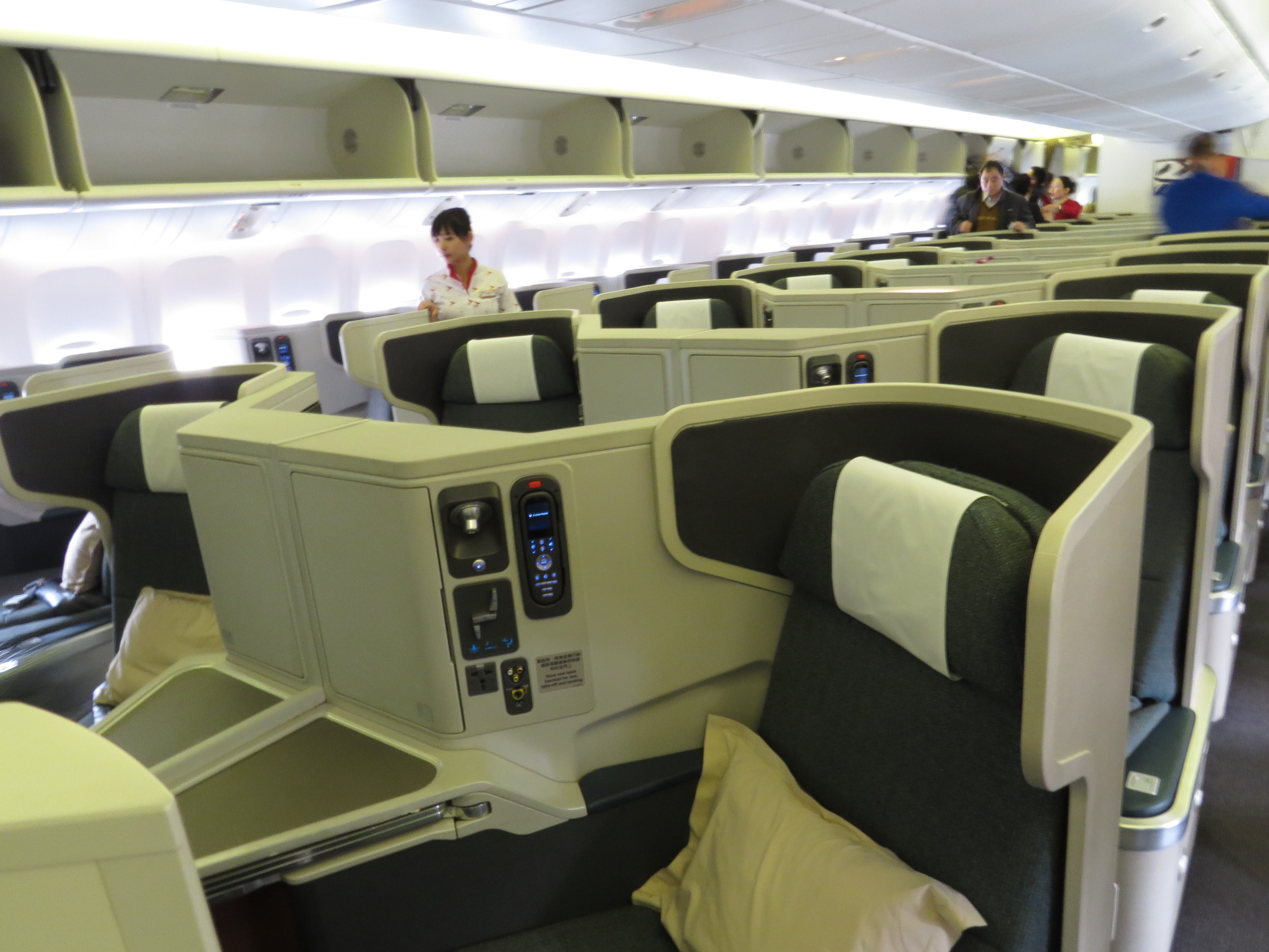 CPA391 from Beijing to Hong Kong. This 777-367ER is classified as 77H, the four-class variant in Cathay Pacific fleet. It was CX that made this business class seat pattern popular, such seat is adopted by American Airlines (on its B77Ws and A321s) and China Eastern (on its new A330-200s).